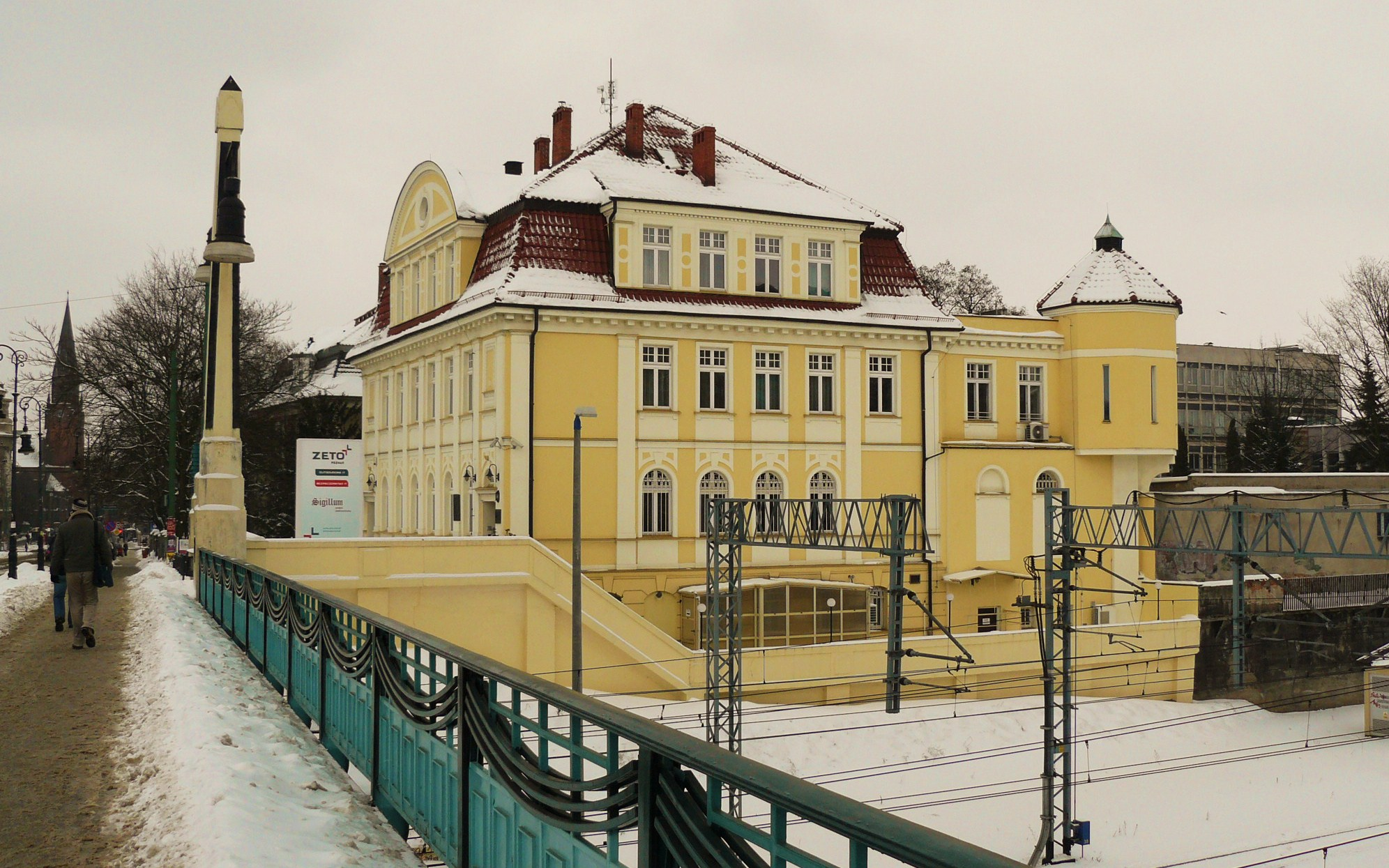 Poznań 8a Fredry Street - former Bank Deutscher Pfandbriefanstalt and ZETO.